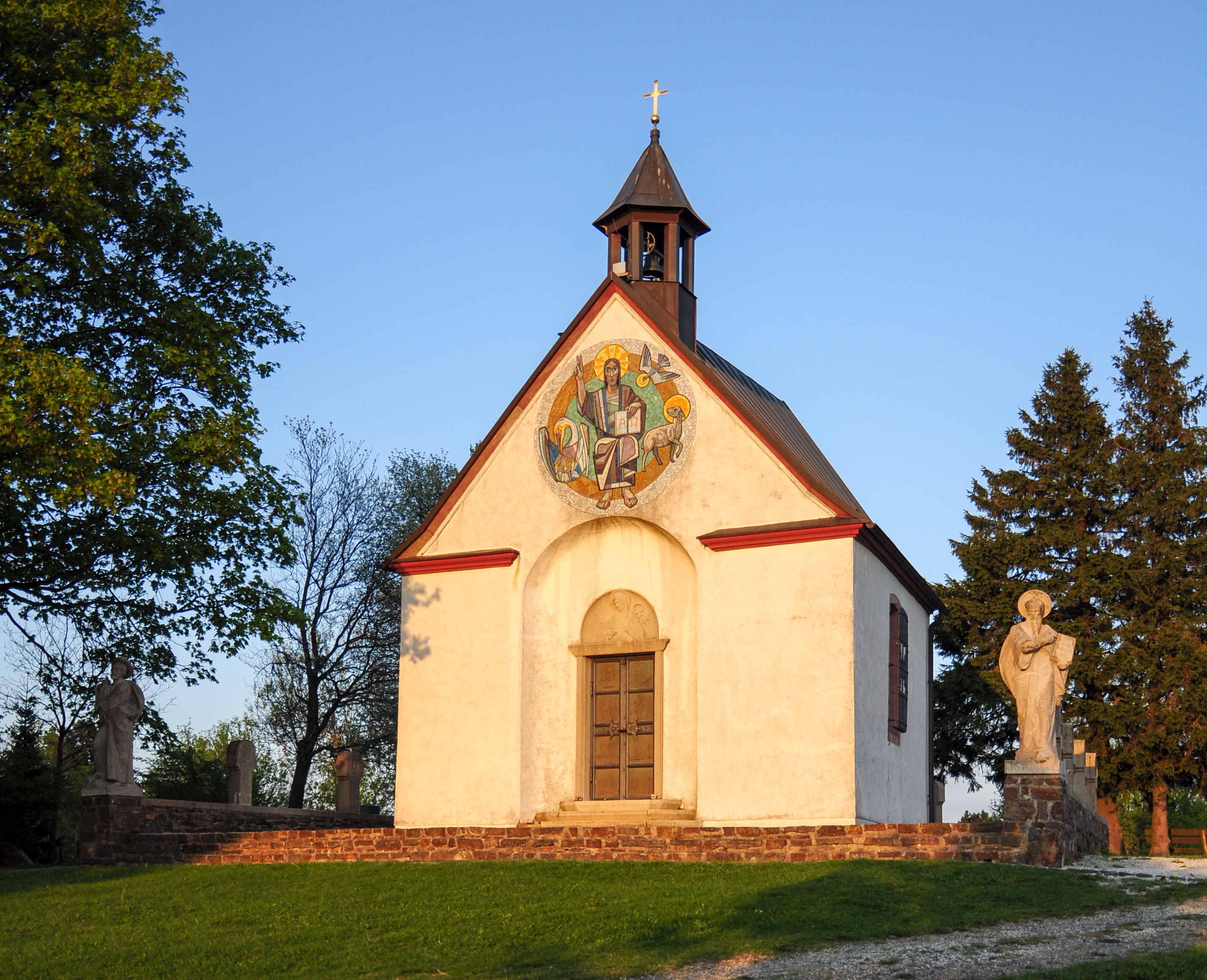 Saint Gertrud Church in Oberreifenberg, Germany